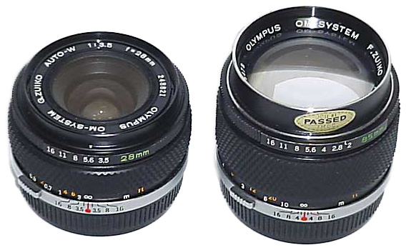 Olympus Zuiko Lenses from the OM line